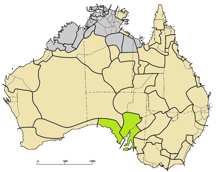 Thura-Yura languages (green) among other Pama–Nyungan (tan). The two groups are Nangga (west) and Yura–Kadli (east)